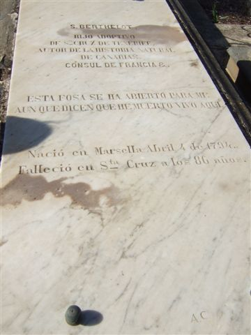 Sabin Berthelot tomb in the cemetery of San Rafael and San Roque in Tenerife